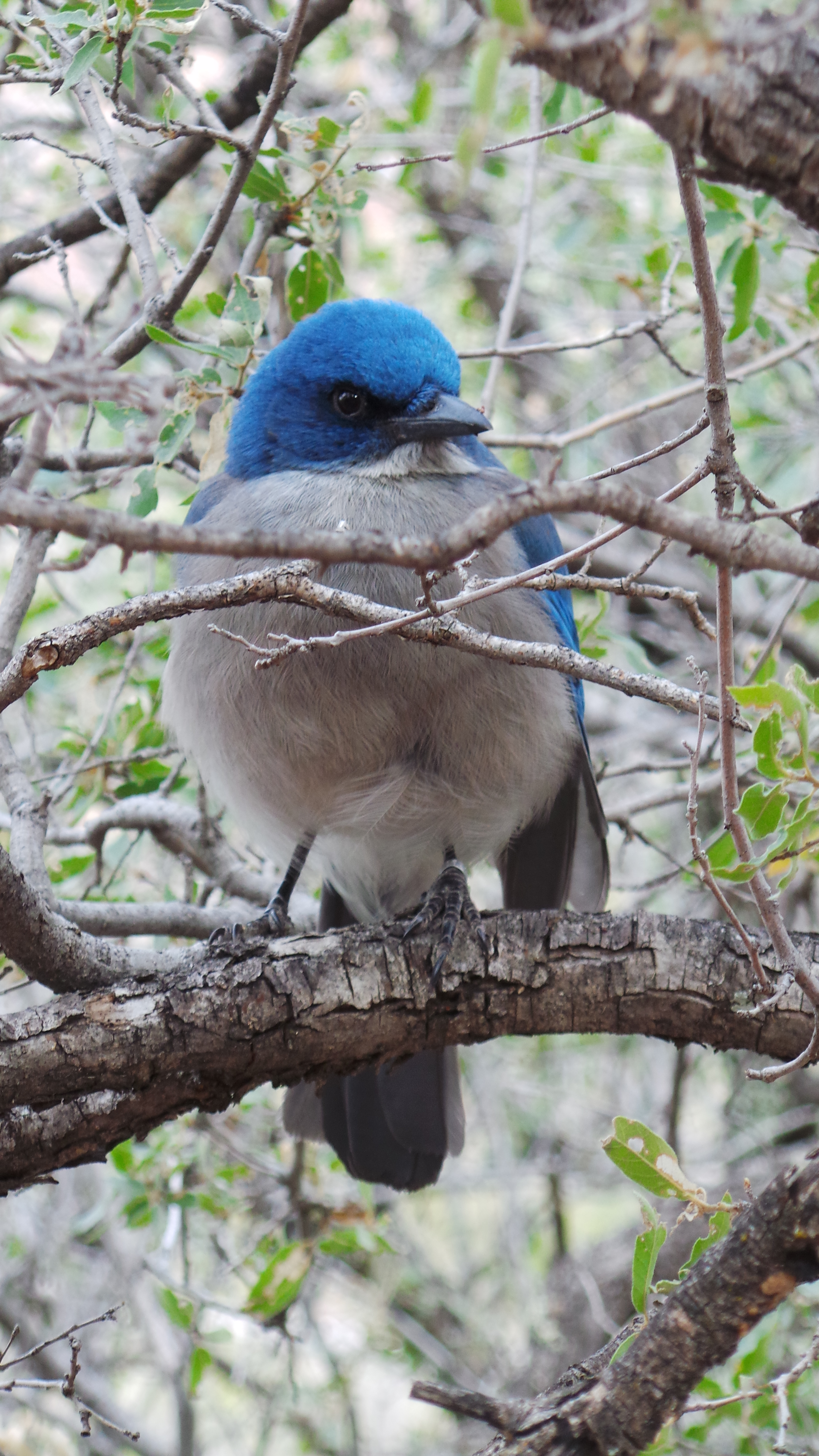 Mexican Jay, Aphelocoma wollweberi, spotted at Big Bend National Park, January 2014, with a numbered aluminum bird ring.